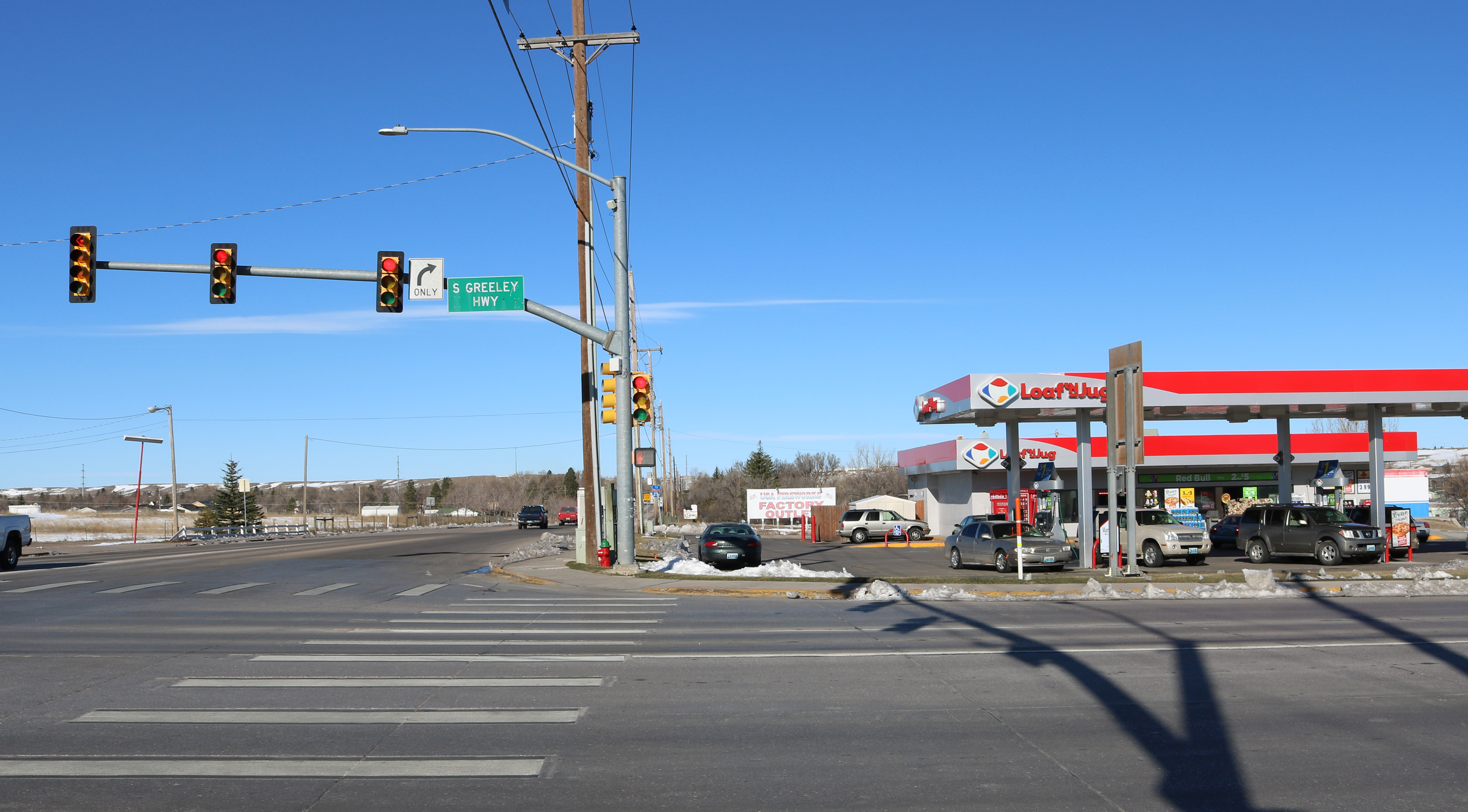 South Greeley, Wyoming. The view is to the west at the intersection of South Greeley Highway and College Drive. South Greeley Highway, which is also U.S. 85, goes left-right in the picture. The other road, traveling through the red light and towards the hills in the distance, is College Drive, which is also Business Loop I-25 and Business US 87, and also Wyoming Highway 212.